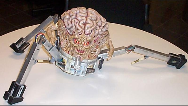 Latex model for the Spider Mastermind, created by Gregor Punchatz.